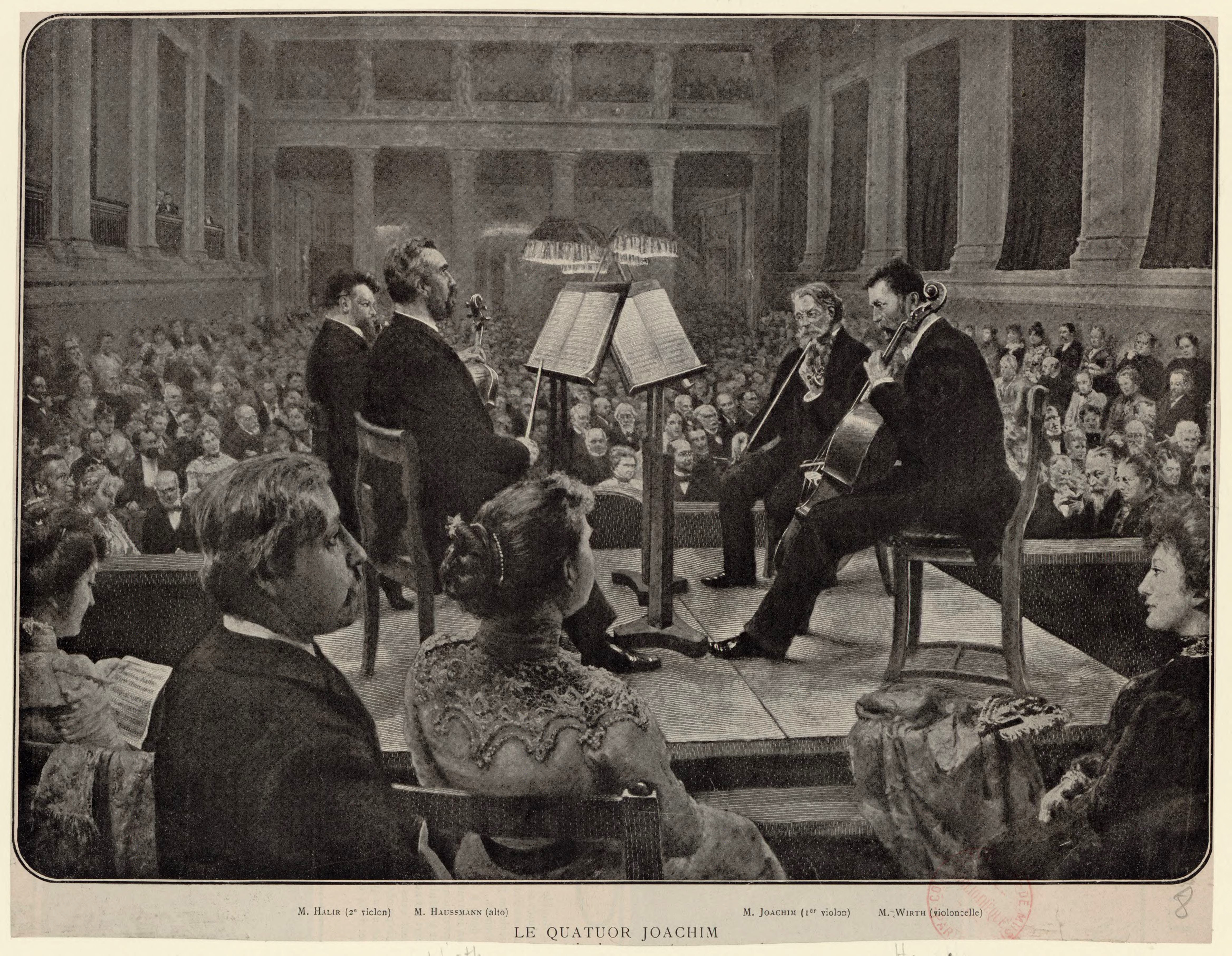 The Joseph Joachim Quartet. From left to right: Carl Halir, Robert Hausmann, Joseph Joachim, Emanuel Wirth.